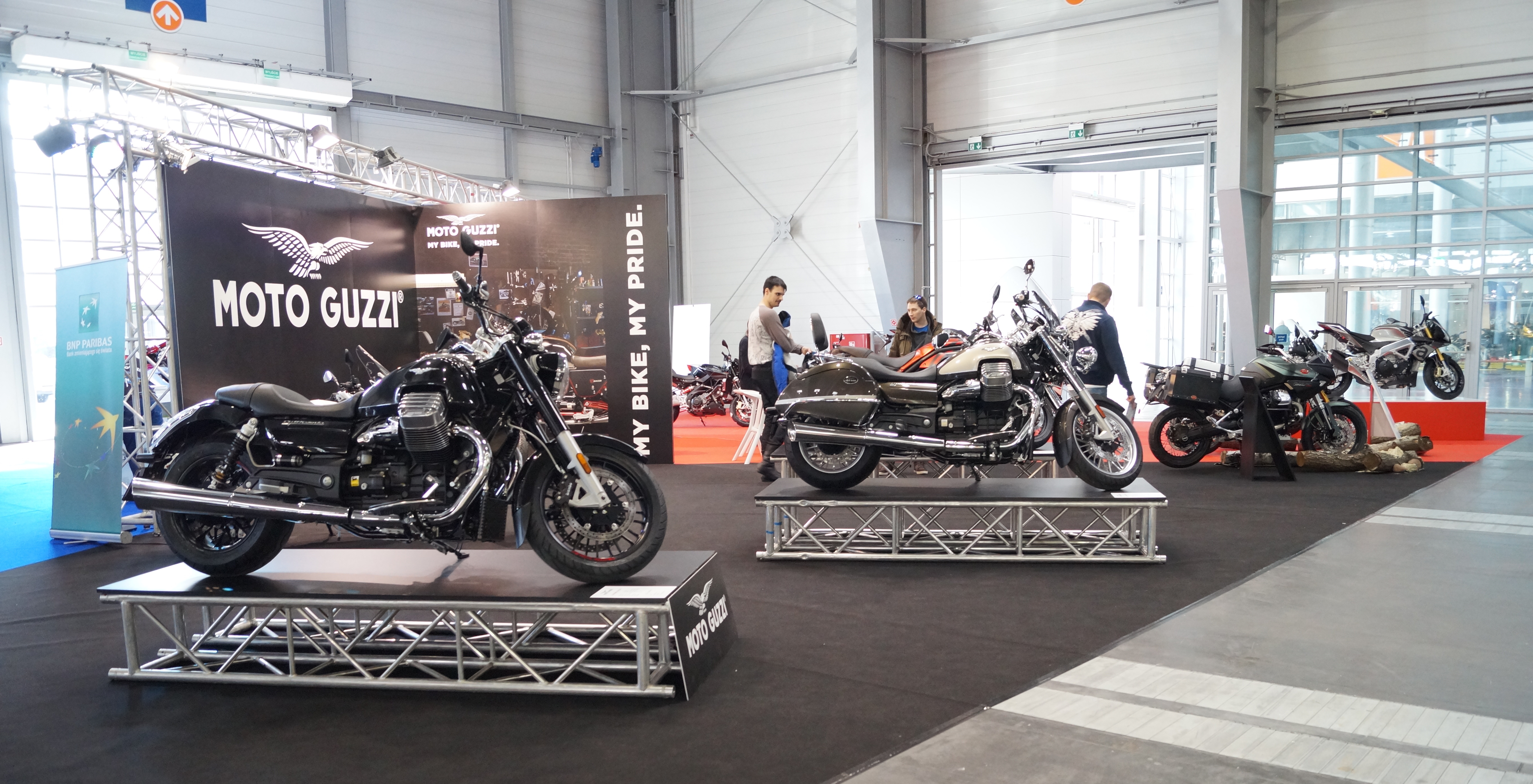 The making of this document was supported by Wikimedia Polska Association, within Wikigrant no. WG 2015-19. Stanowisko Moto Guzzi na Motor Show Poznań 2015. Moto Guzzi California 1400.